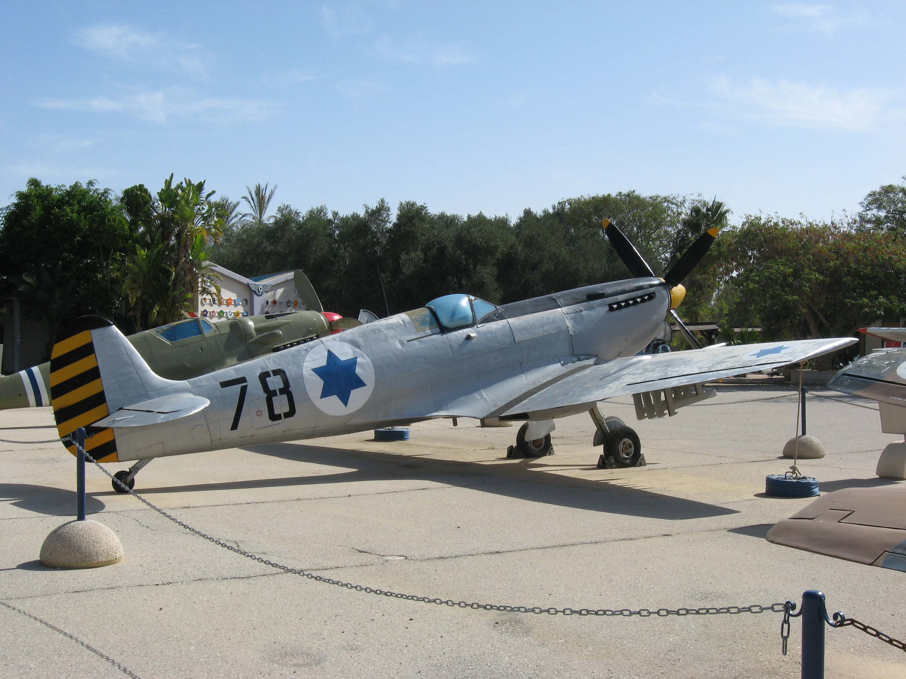 Supermarine Spitfire Mk.IXe EN145, former Israeli Air Force 20-78,at the Israeli Air Force museum in Hatzerim